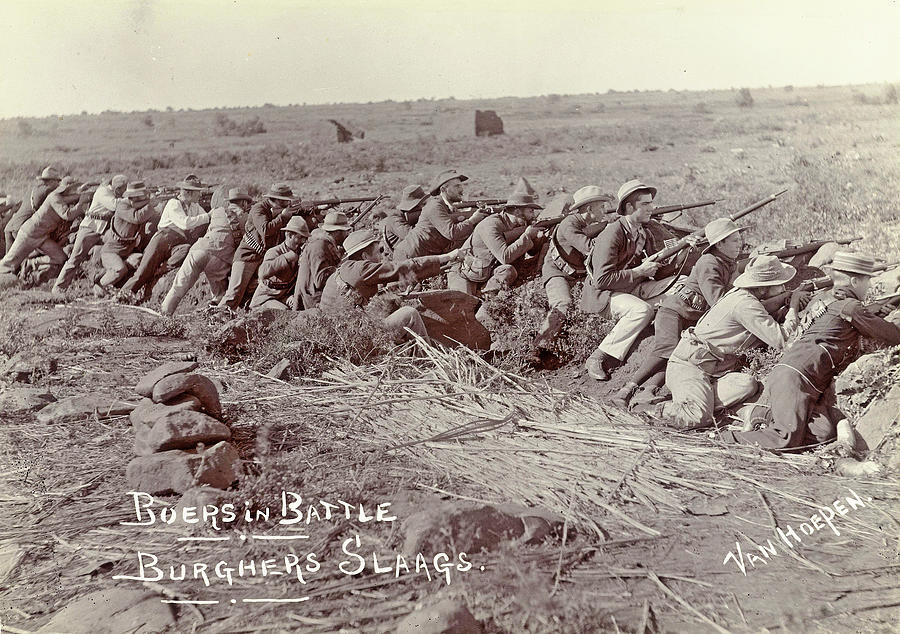 "Boers in Battle", at the Siege of Mafikeng, Second Boer War